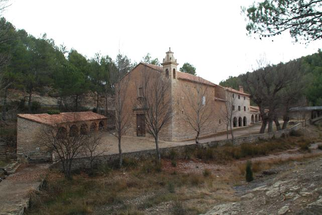 Hermitage of Santa Ana (Zucaina, Castelló, Spain)